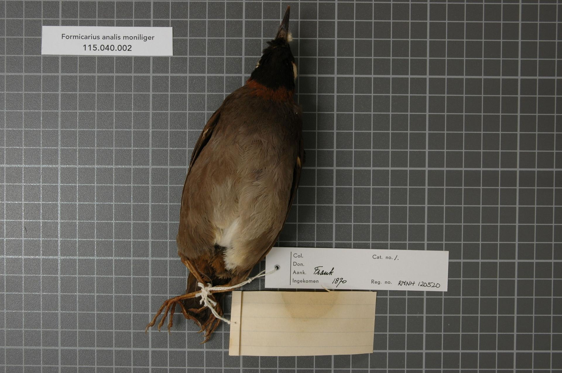 Formicarius analis moniliger Sclater, 1856